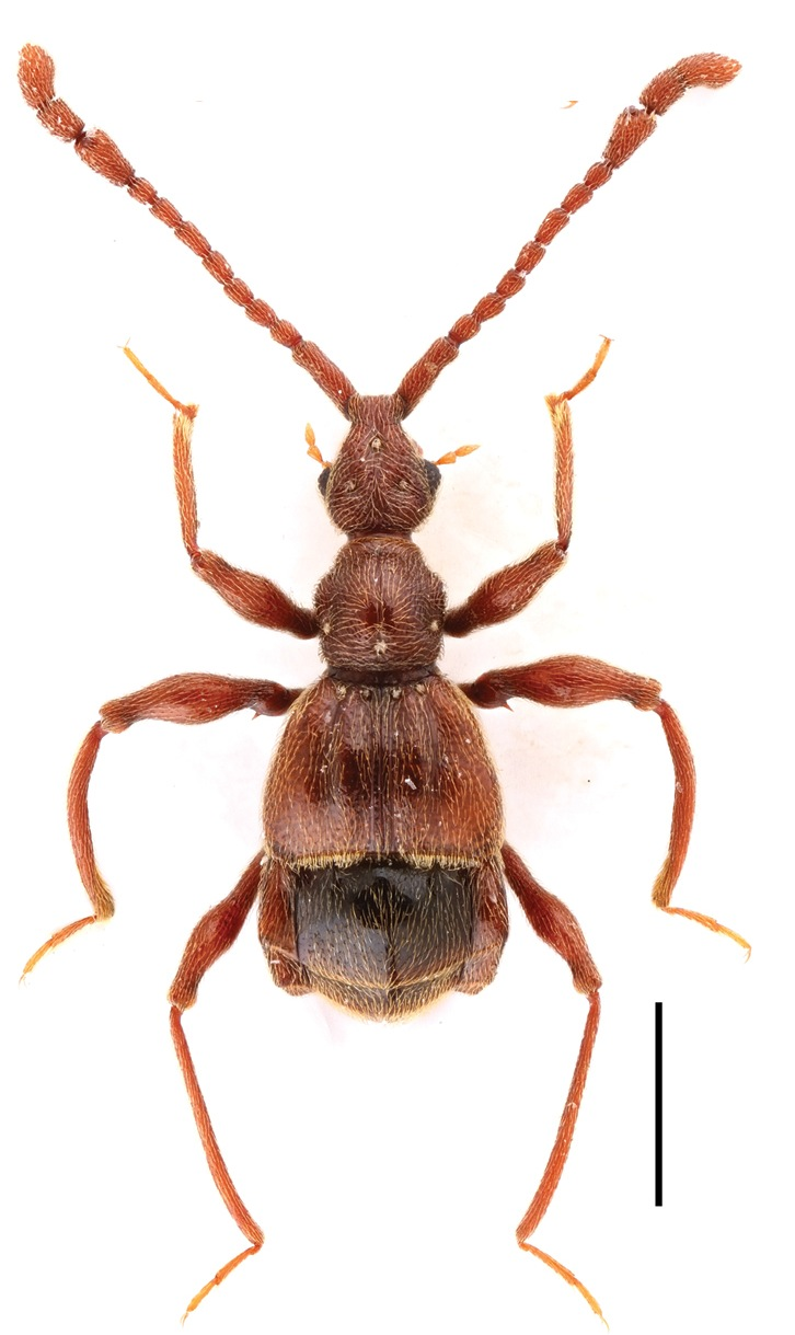 Male habitus of Pselaphodes flexus. Scale: 1.0 mm.